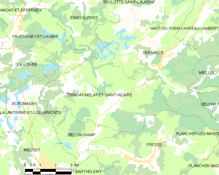 Map of French municipality